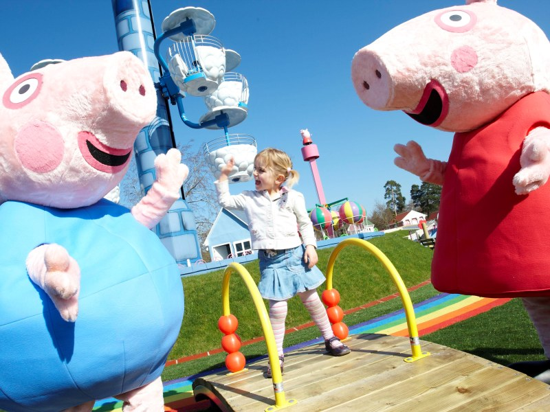 Peppa Pig World at Paulton Park 2011